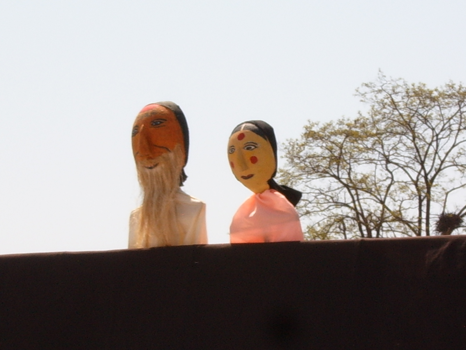 Deolmi (덜미), or called kkokdugaksi noreum (꼭두각시놀음) for Korean traditional puppetry. It was performed for Hi! Seoul Festival on April 28th 2007